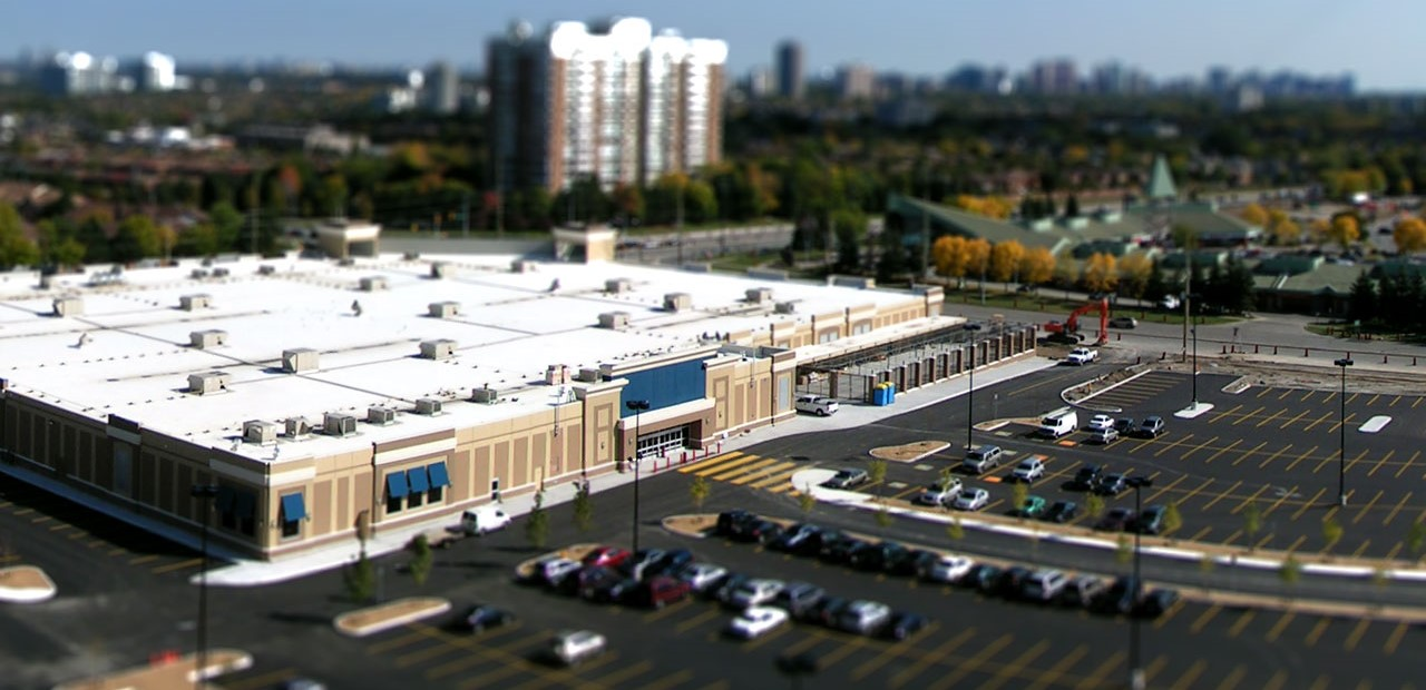 Miniature effect by Mark Ercil